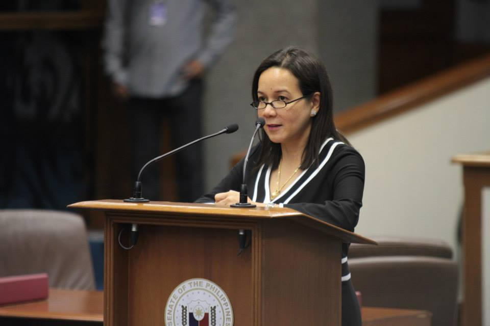 Senator Grace Poe delivering a privilege speech on the floor of the Senate of the Philippines. The speech was delivered on the tenth anniversary of the Hello Garci scandal, where her father, Fernando Poe, Jr., was allegedly defrauded of votes by then-President Gloria Macapagal-Arroyo. Tagalog: Nagbibigay si Senadora Grace Poe ng kaniyang talumpati sa entablado ng Senado ng Pilipinas. Ibinigay ang talumpati sa ikasampung anibersaryo ng eskandalong Hello Garci, kung saan inakusahan si dating Pangulong Gloria Macapagal-Arroyo ng pagbabawas ng boto mula sa kaniyang ama, si Fernando Poe, Jr..